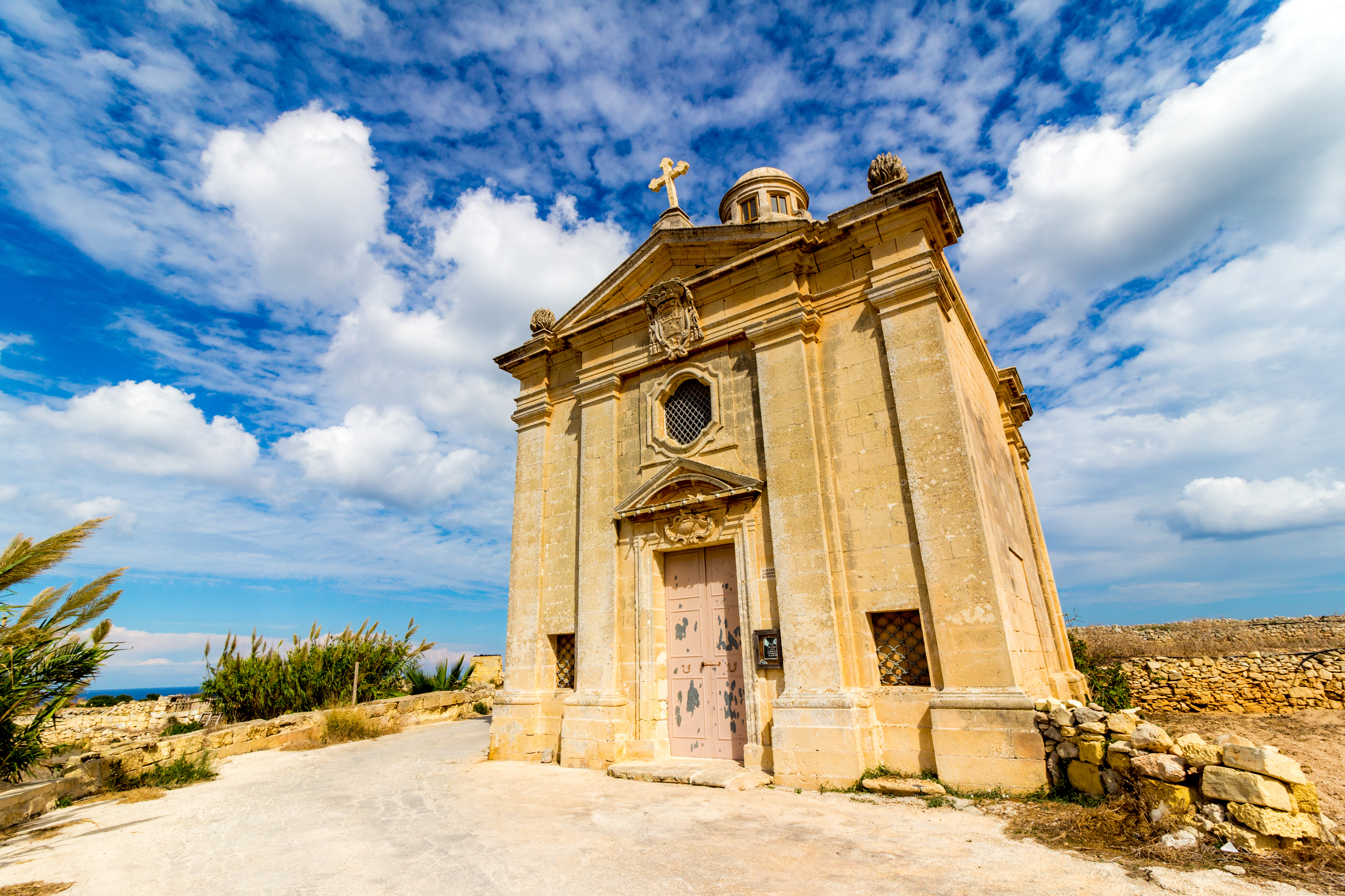 Chapel of St Nicholas This media is about Maltese cultural property with inventory number 02102.